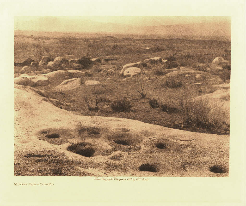 Mortars made by the Cupeño people of Southern California